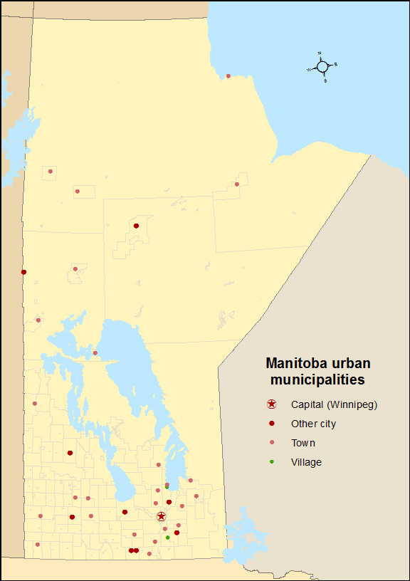 Distribution of Manitoba's 79 urban municipalities (10 cities, 50 villages and 19 villages)